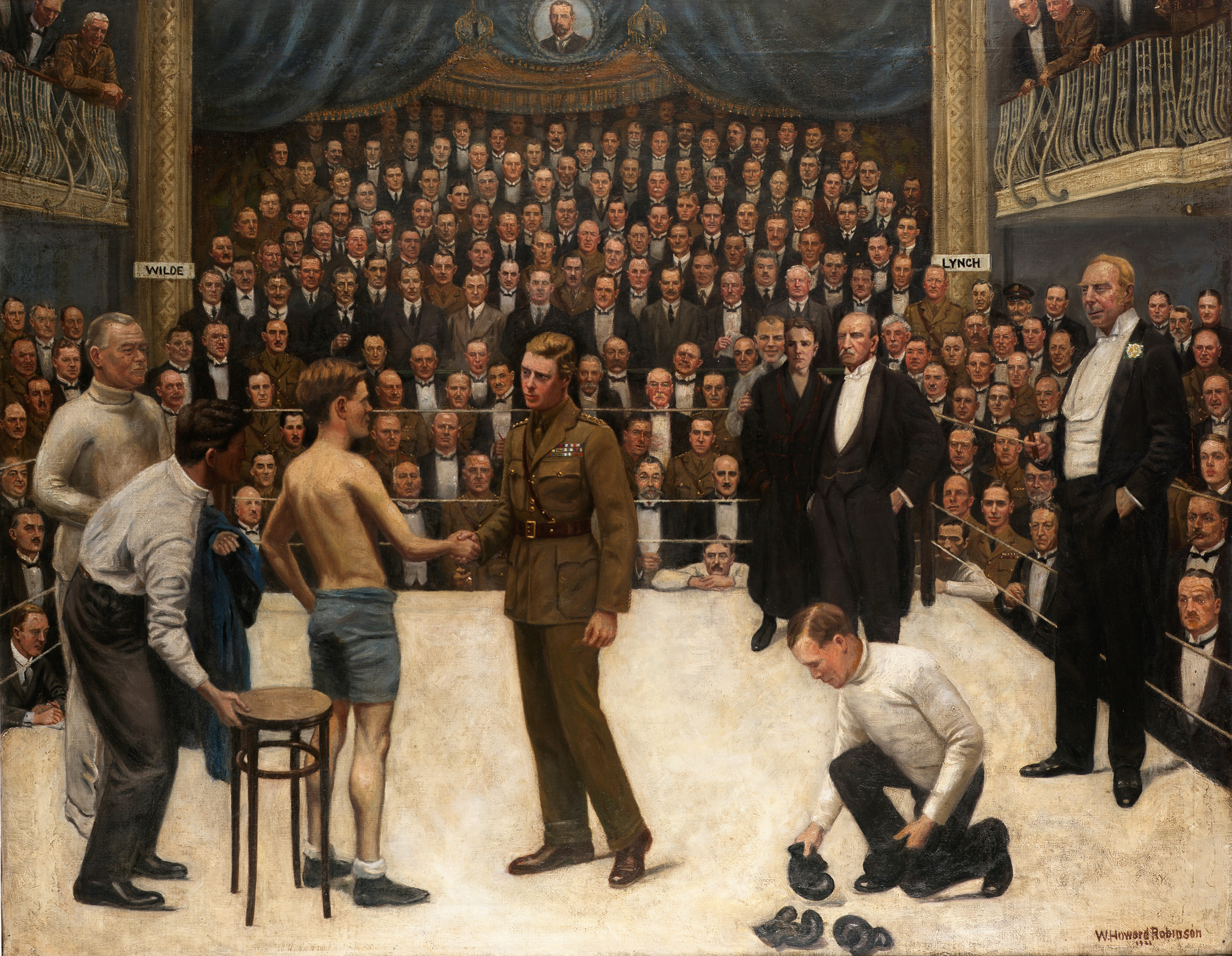 The painting depicts the occasion when Jimmy Wilde outpointed Joe Lynch of America after a battle over 15 rounds. At the end, the Prince of Wales (later Edward VIII) stepped into the ring and congratulated the tiny Welshman on his victory. This was the first time Royalty officially entered the ring and thereby had given their official patronage to boxing, a sport which had been illegal in the days of bare knuckle fighting and was still looking for acceptance.